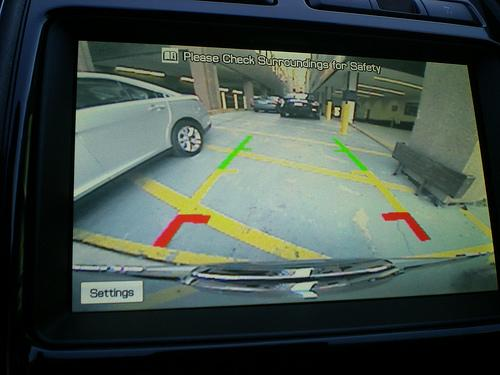 Rear View Camera of the 2010 Ford Taurus.